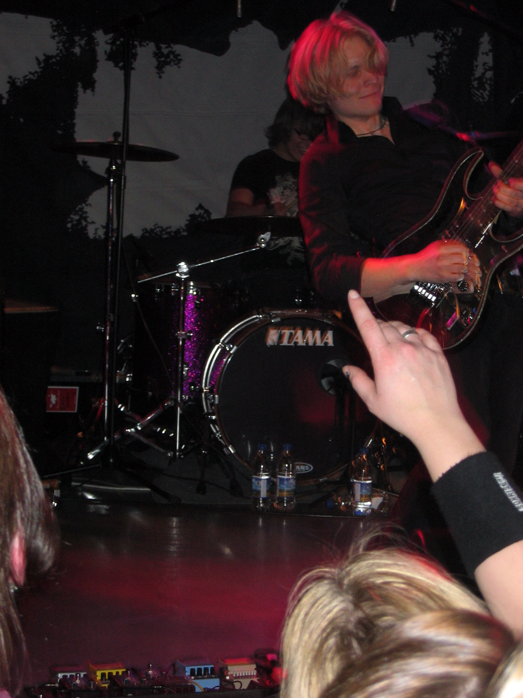 Ollie Tukiainen and his magic stuff